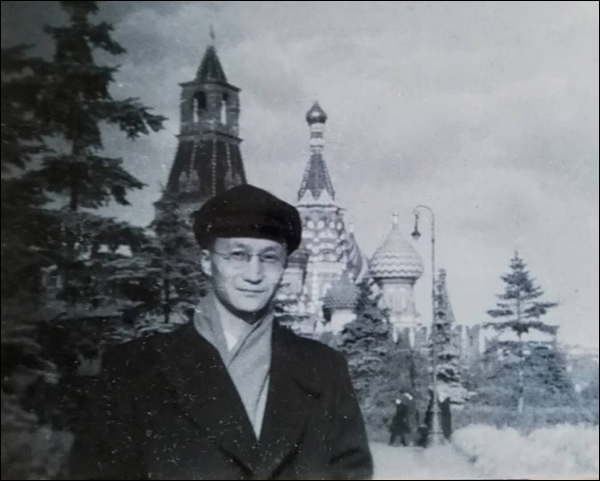 Zhou Shouxian joined a delegation in 1955 to visit Moscow.